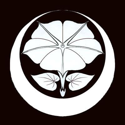 17. Ikebana schools, like Japanese families have a crest or a mon. Above is the Banmi Shofu Mon with the crescent moon and moonflower adapted by Jesus Bantake Minguez from instructions by Ric Bansho Carrasco and historical details from Bessie Banmi Fooks and Bansui Ohta.